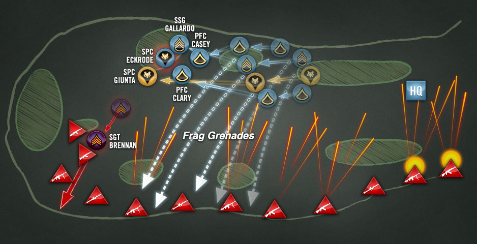 Pinned down by effective enemy fire, Staff Sgt. Gallardo, Spc. Giunta, and Pfc. Clary inventoried their supply of fragmentation grenades and began preparing to use them. The four-Paratrooper team used multiple grenade volleys, Pfc. Casey’s M-249 Squad Automatic Weapon (SAW), and their M-4 assault rifles to weaken enemy resistance enough to link up with Spc. Eckrode, who was responsive and trying to clear his jammed SAW.